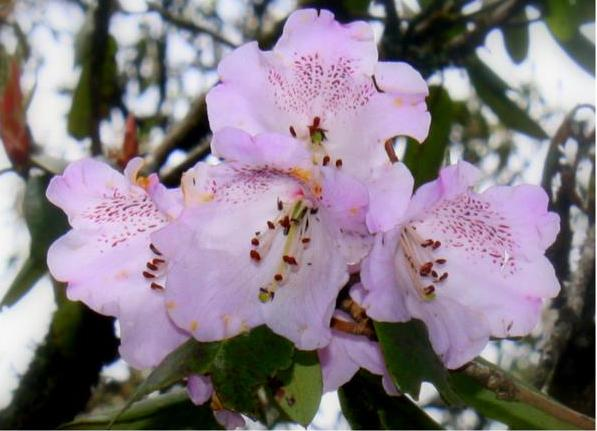 Rhododendron (গুরাস) found in the way of Sandakphu, West Bengal, India